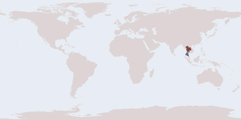 Distribution for species Ramulus thaii (Hausleithner, 1985)